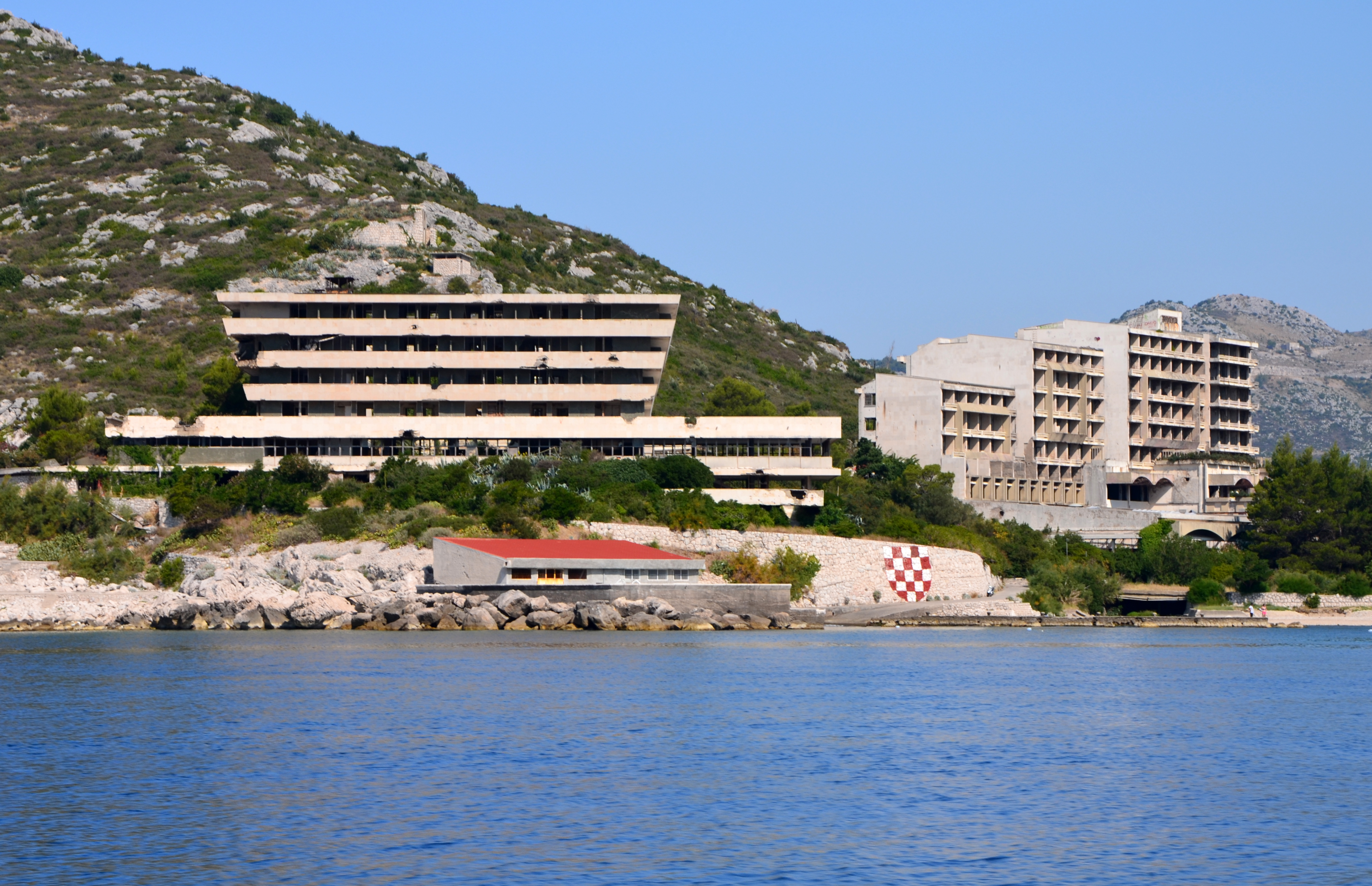 Hotels Pelegrin (on the left side) and Kupari (on the right side) in Kupari (Croatia), abandoned during the Croatian War of Independence, in 1991.